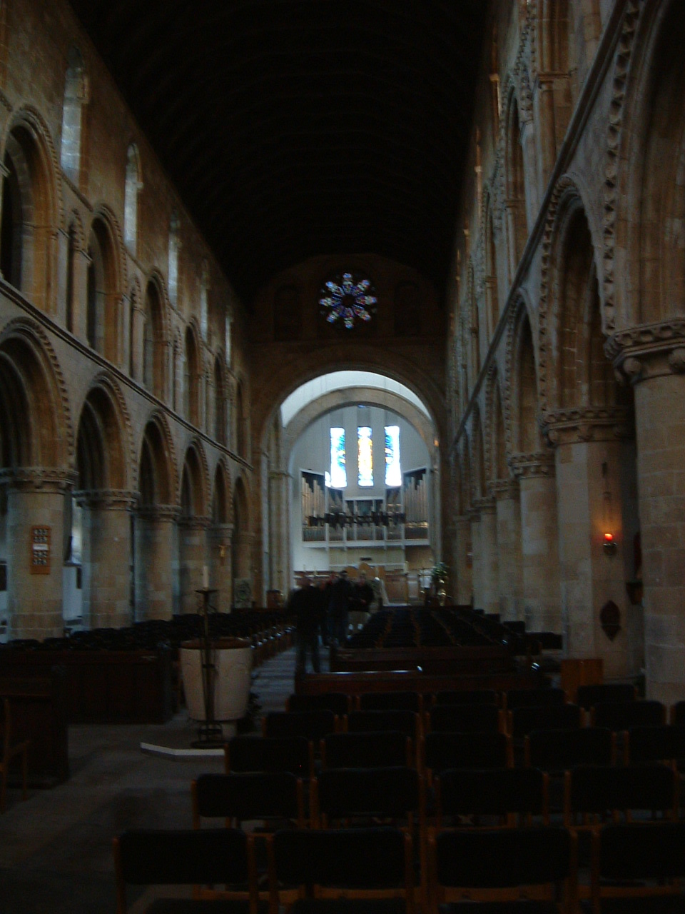 Taken by James@hopgrove, February 2006